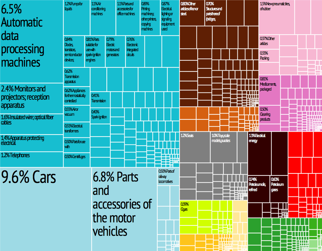 Czech Republic Export Treemap from MIT Harvard Economic Observatory